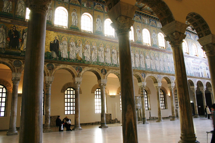 Main nave of the byzantine basilica of Sant'Apollinare Nuovo in Ravenna, Italy, shiowing the mosaic of the "Procession of the Saint martyrs".